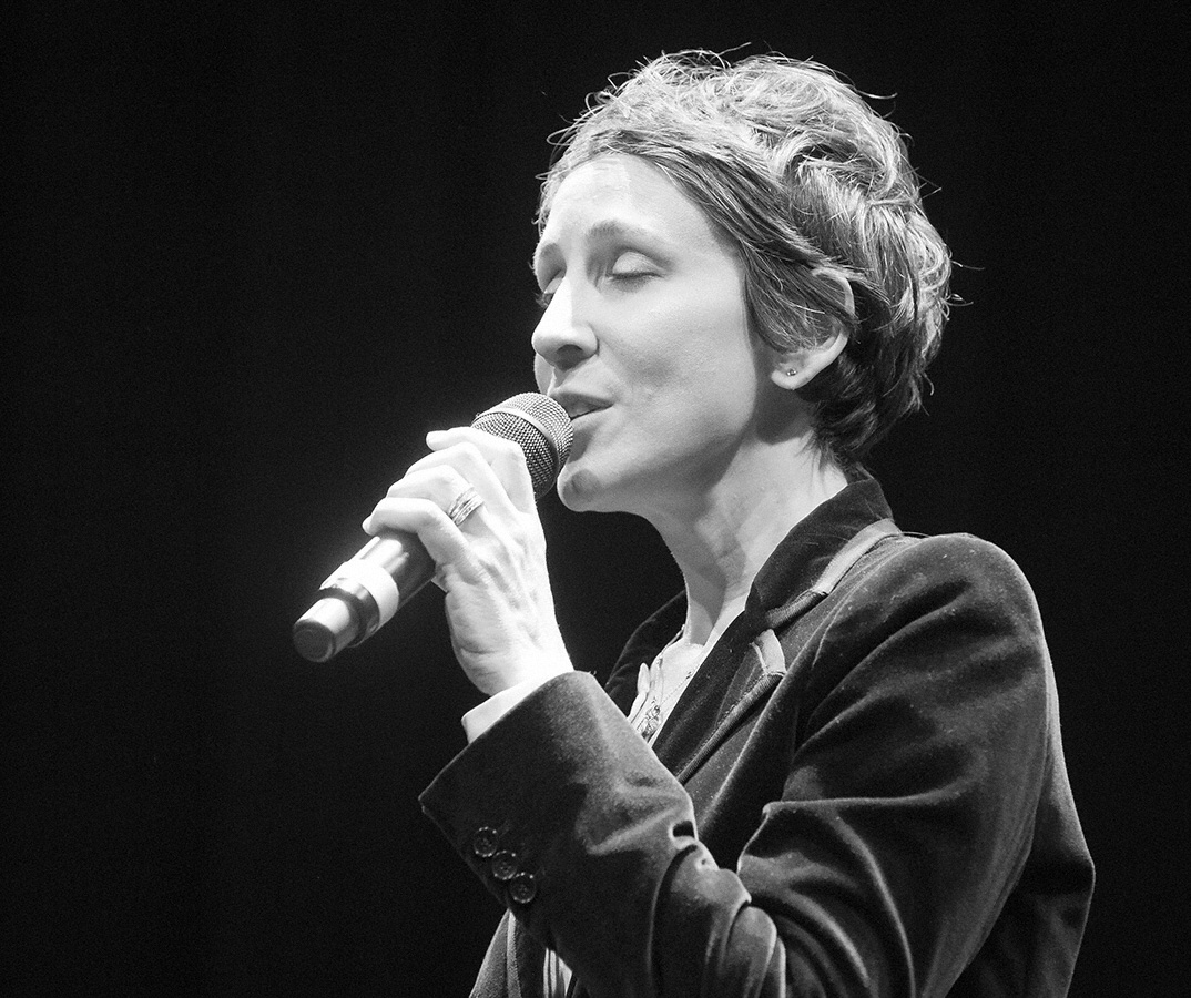 Stacey Kent at the main stage of Cosmopolite. The concert took place on 15. October 2016 in Oslo.Lineup: Stacey Kent (vocal), Graham Harvey (piano), Josh Morrison (double bass), Jeremy Brown (drums), Jim Tomlinson (saxophone)